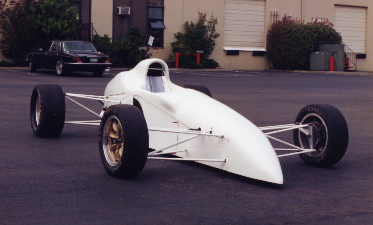 Early Stohr Formula Ford 1600. Raced in the 1991 SCCA Runoffs at Road Atlanta.